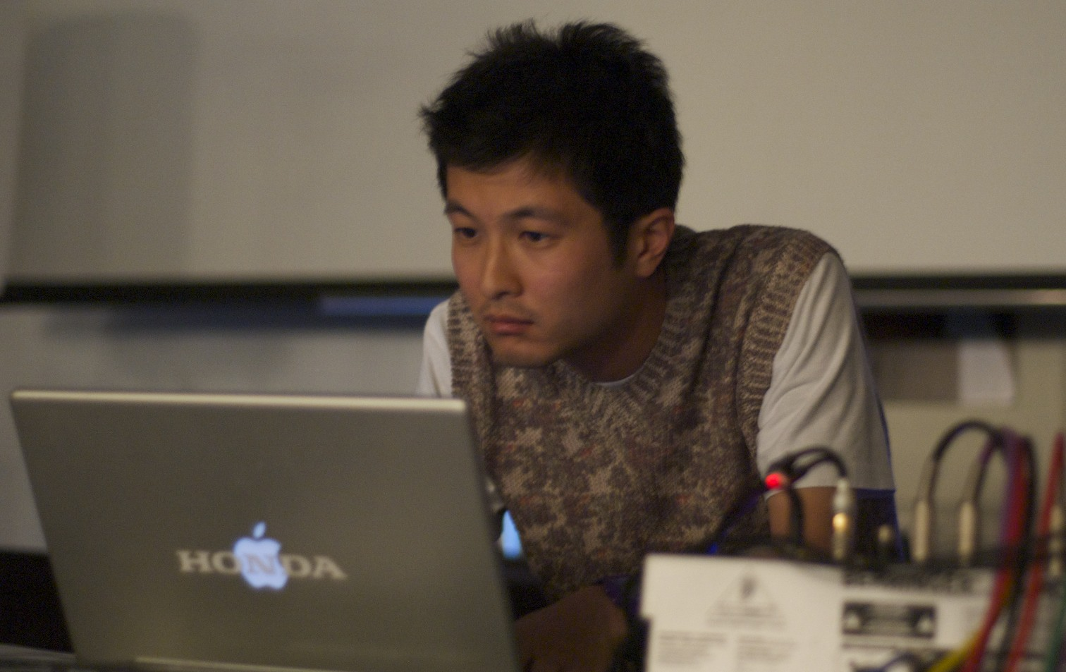 Sound check at the Goethe-Institut Boston, May 13, 2010 (photo: Susanna Bolle)